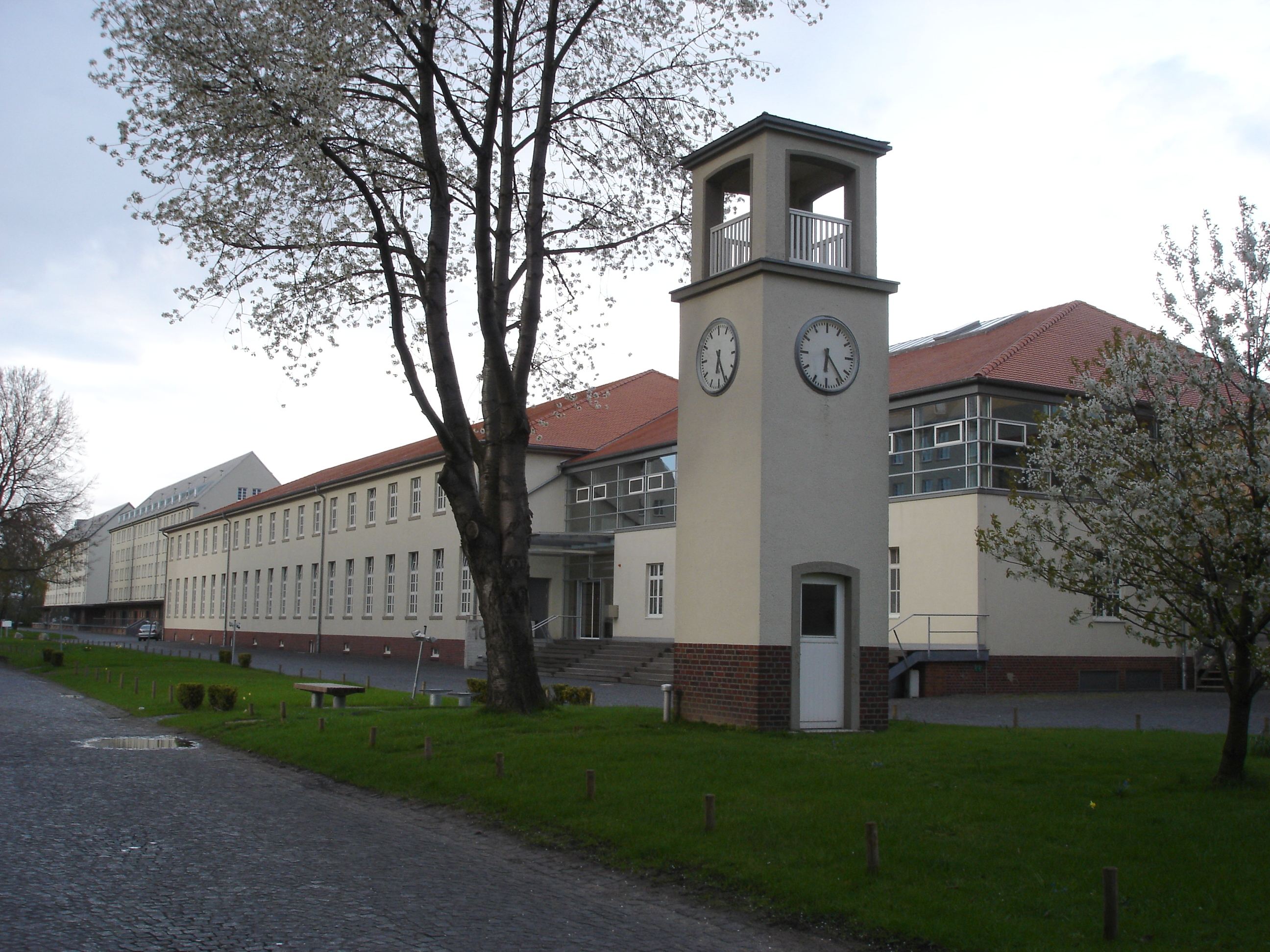 Old tower in the "Speicherstadt" (granery) in Münster, Westphalia, Germany